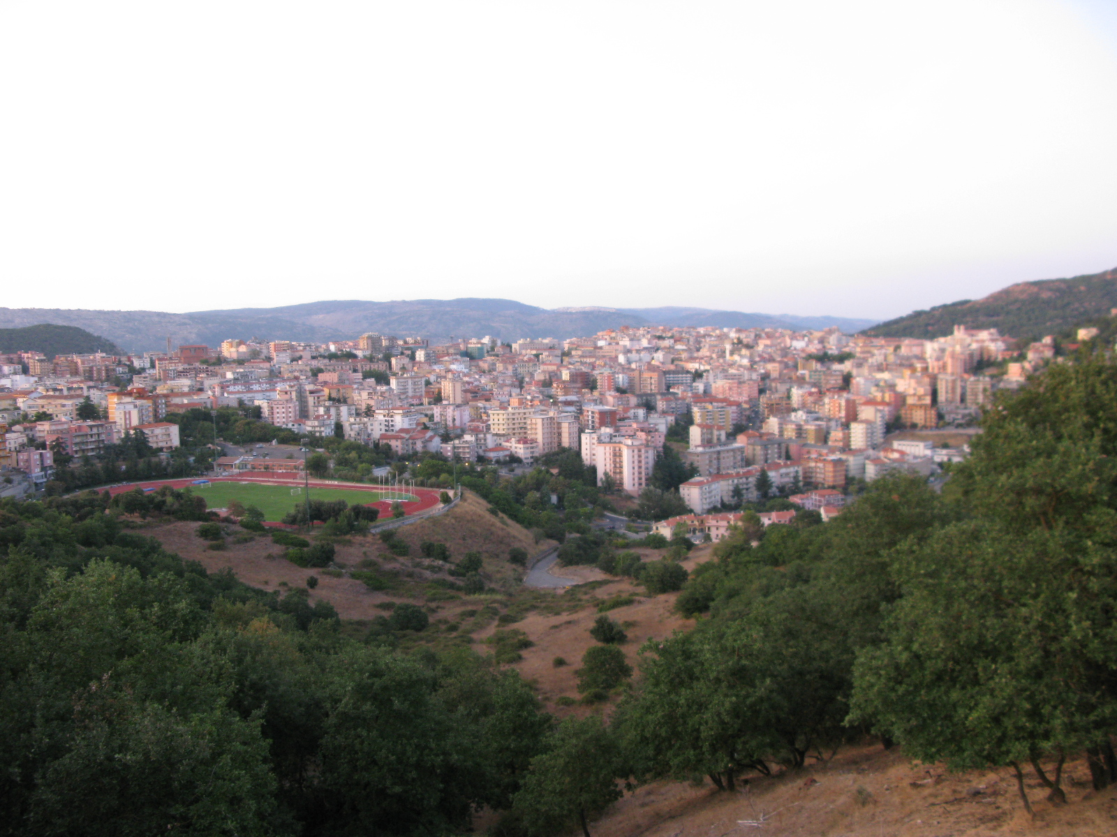 Nuoro - Italy